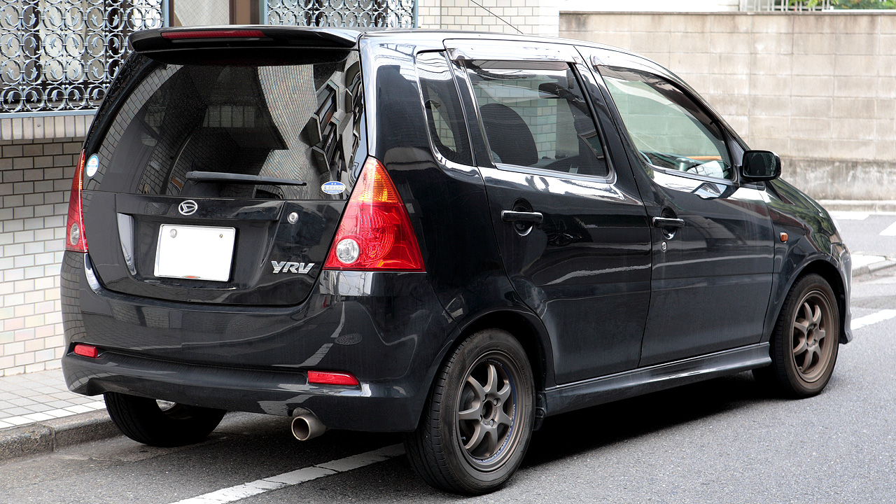 Daihatsu YRV 1.3 Turbo ( M201G )